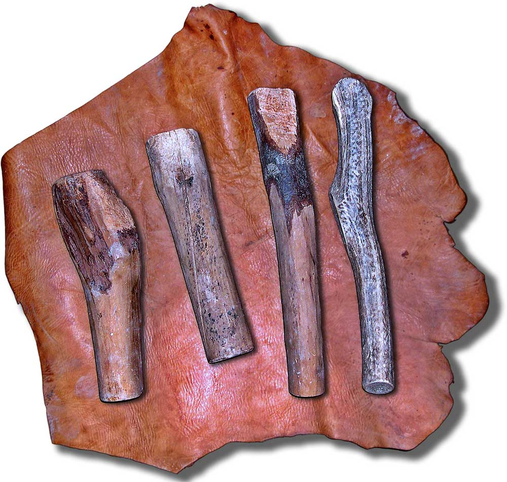 Several soft hammers, some are in wood and one is an antler billet, for experimental knapping (direct percussion)